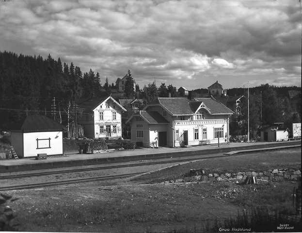 Grua railway station on Gjøvikbanen in Lunner, Norway.